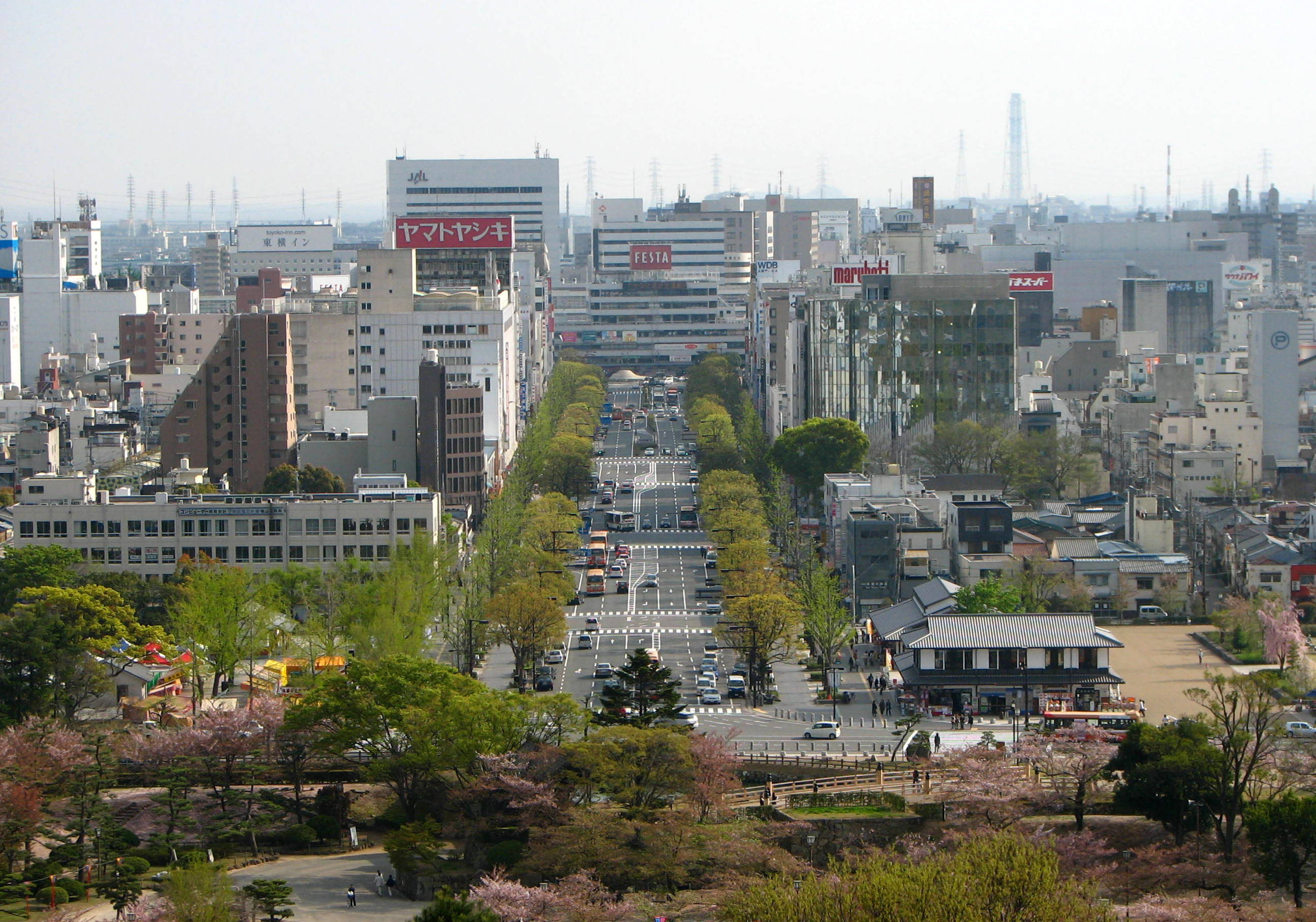 Otemae Street, view from Himeji Castle, Himeji, Hyogo Prefecture, Japan